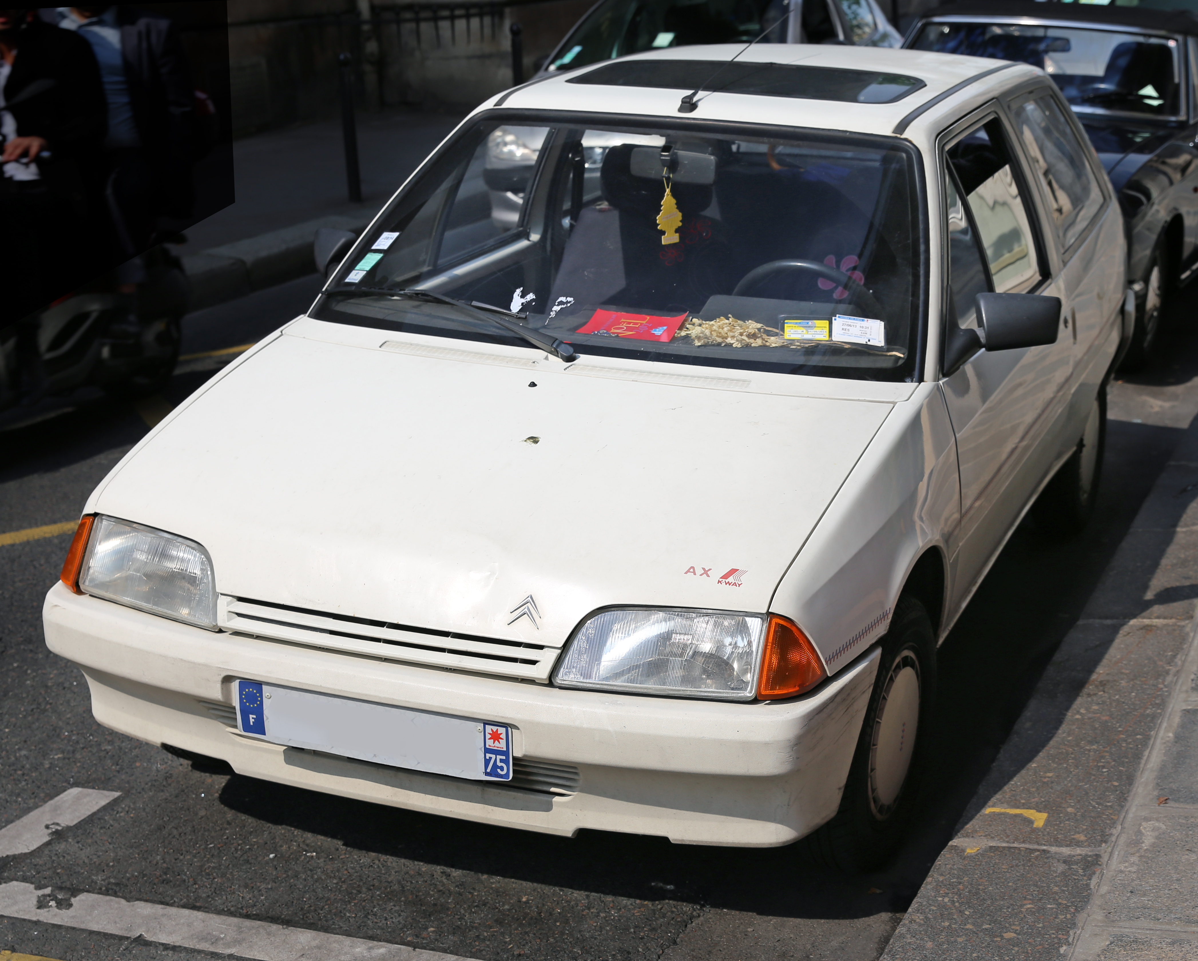 1990 Citroën AX Kway (K-Way), a special edition built from 1988 until 1990 in 6,500 examples.